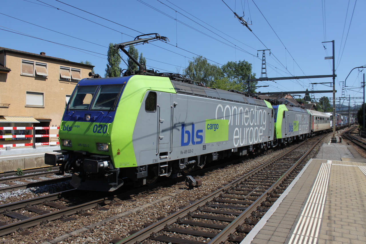 BLS Re 485 020-2 passing through Liestal train station ahead of a northbound rolling highway.